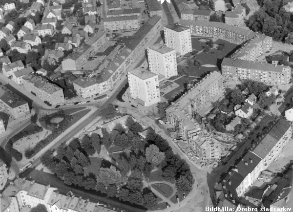 Längbrotorg, Örebro, Sweden, air view